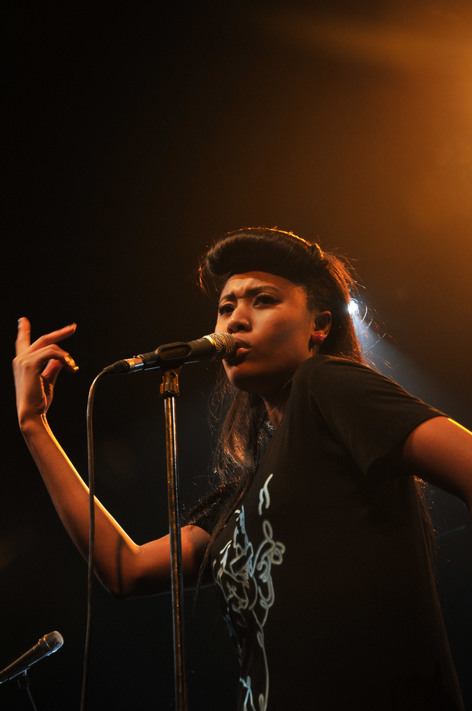 Bristol O2 Academy, February 2008